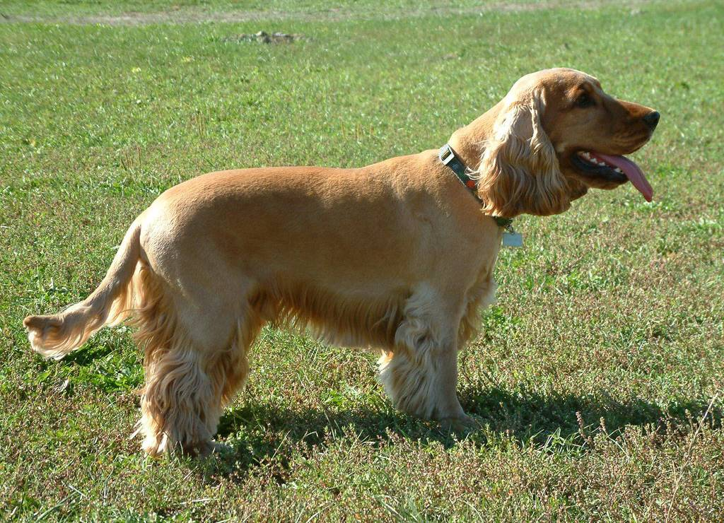 1.5-year-old English Cocker Spaniel, Simon